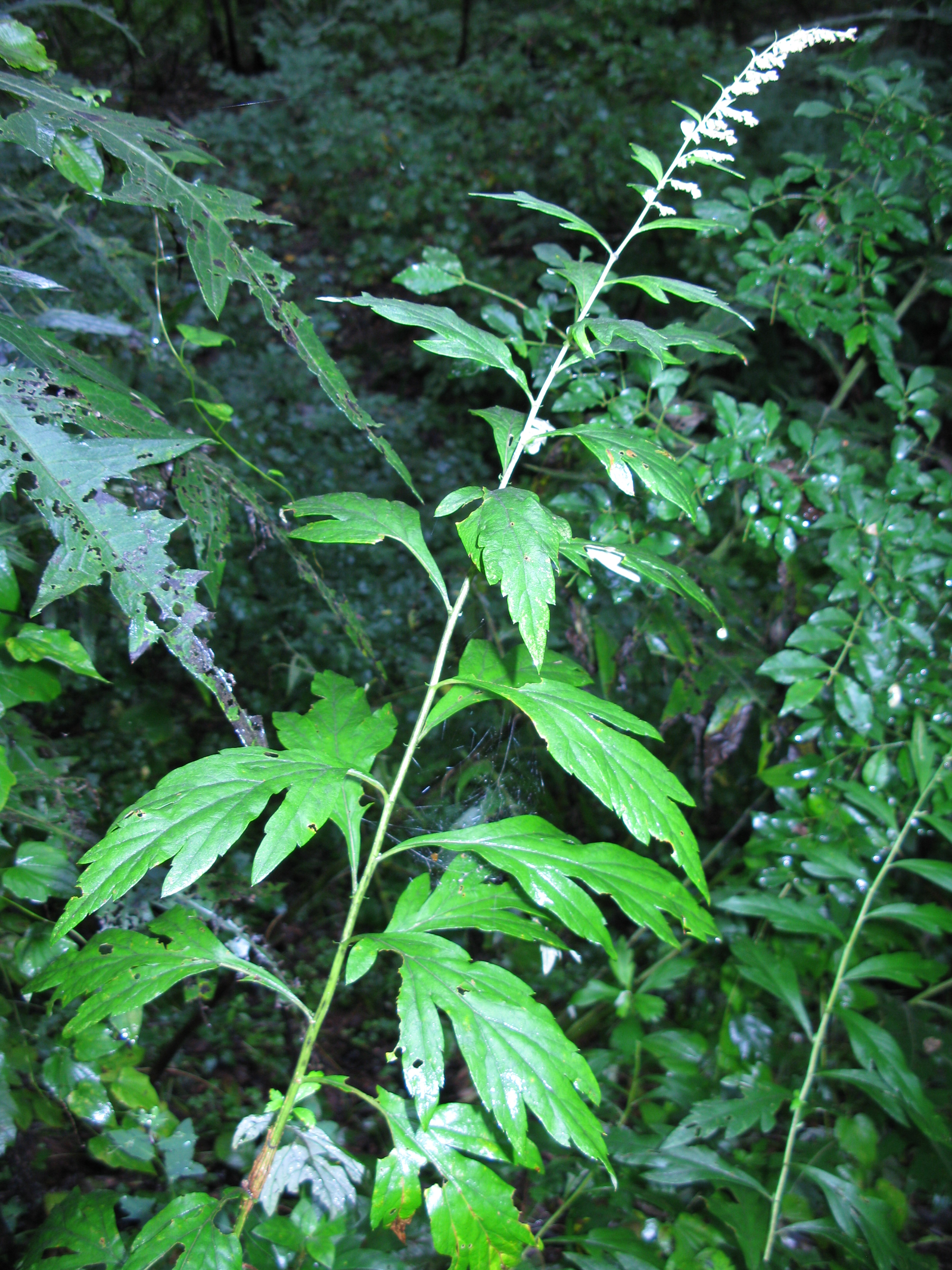 Artemisia montana, Aizu area, Fukushima pref., Japan